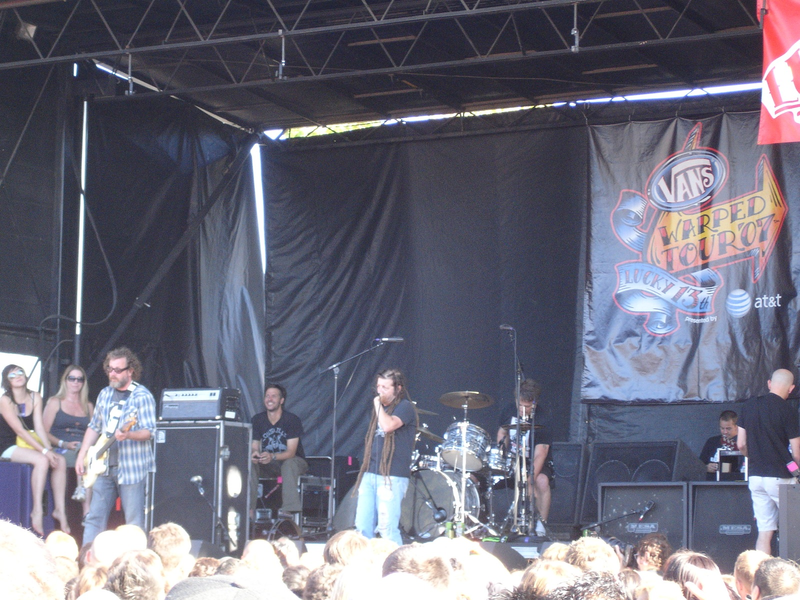 Photo from flickr.